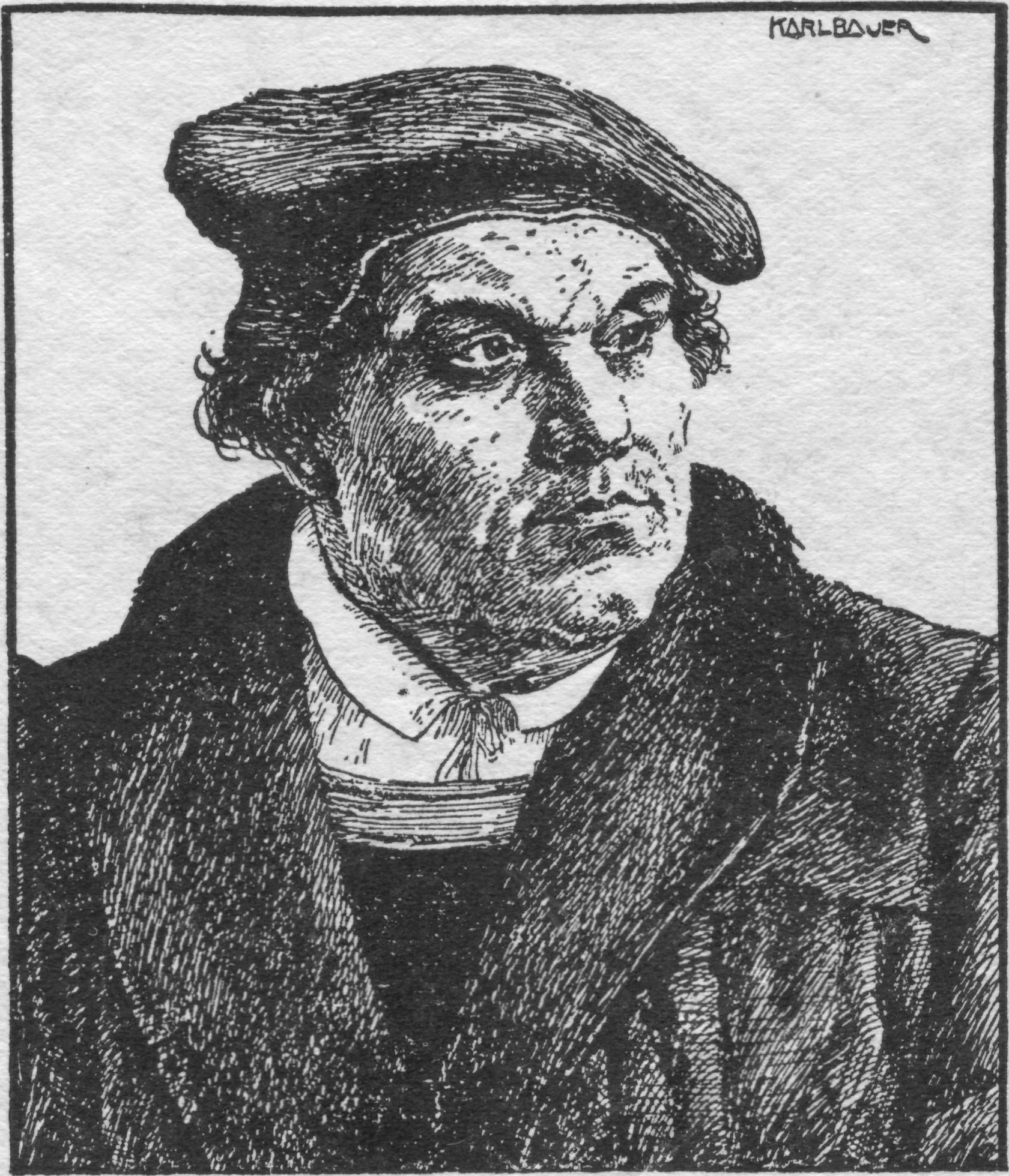 Martin Luther, by Karl Bauer.